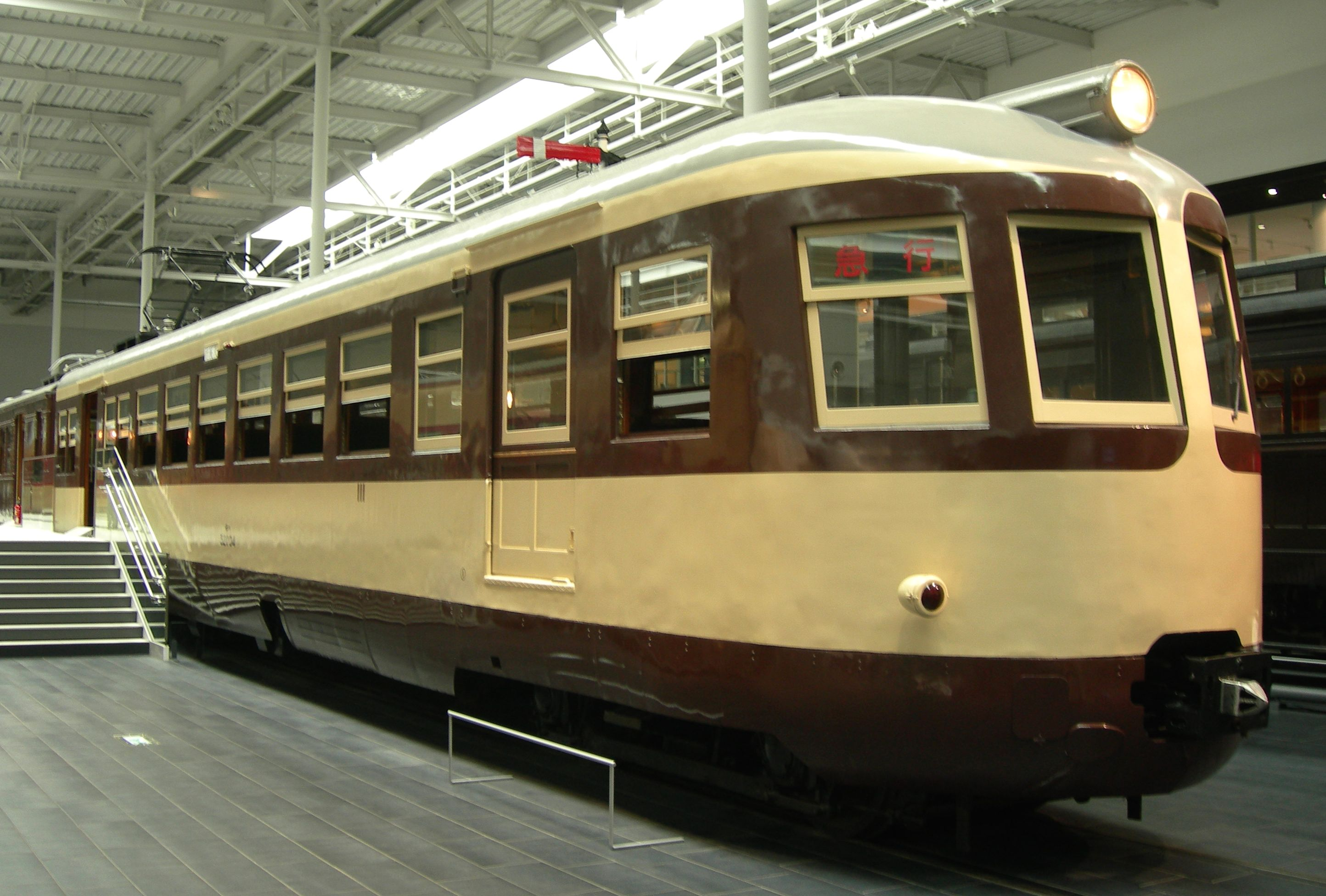 JNR electric car MoHa 52004 preserved at the SCMaglev & Railway Park museum in Nagoya